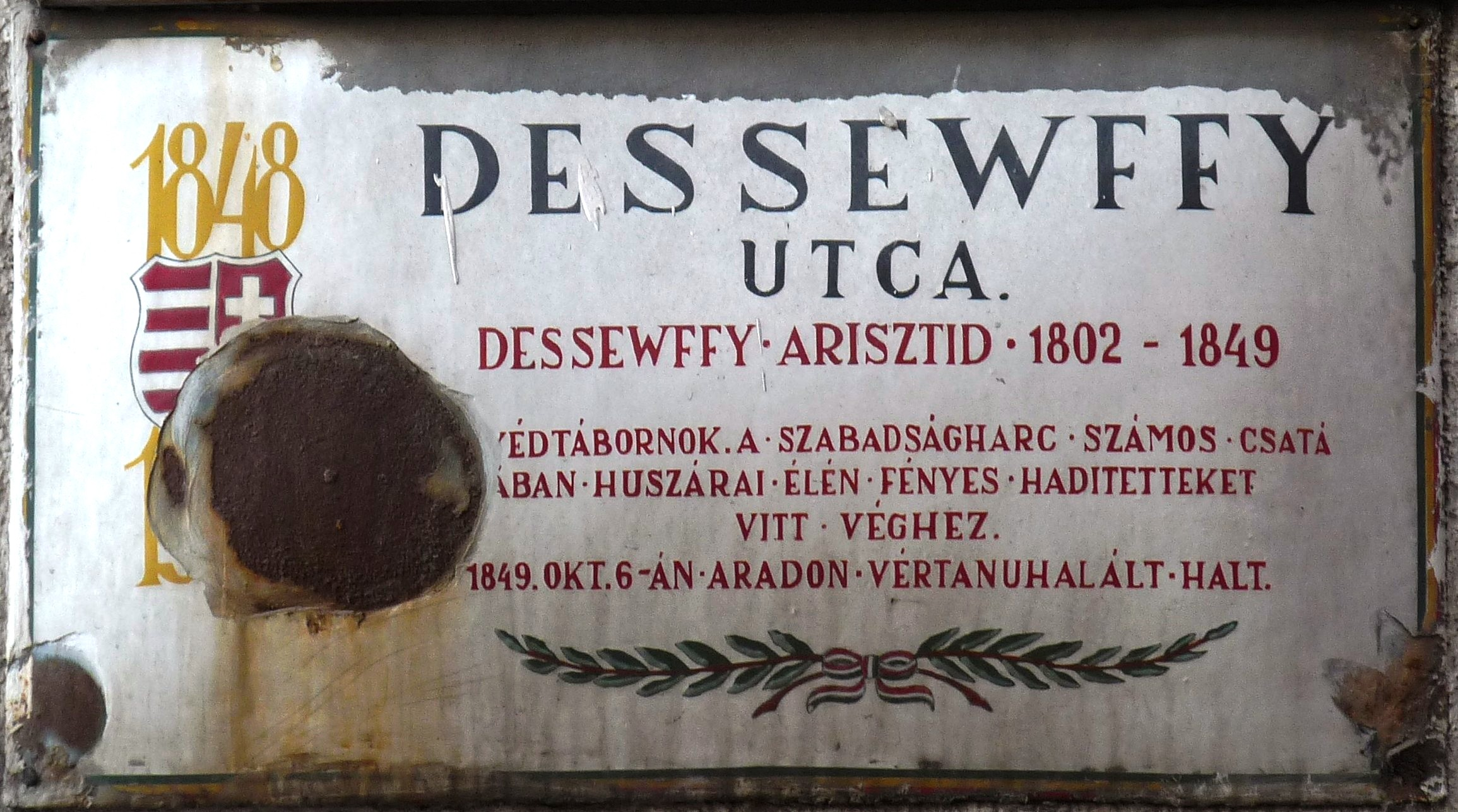 Arisztid Dessewffy commemorative plaque in Budapest District VI, Dessewffy Street No 2.